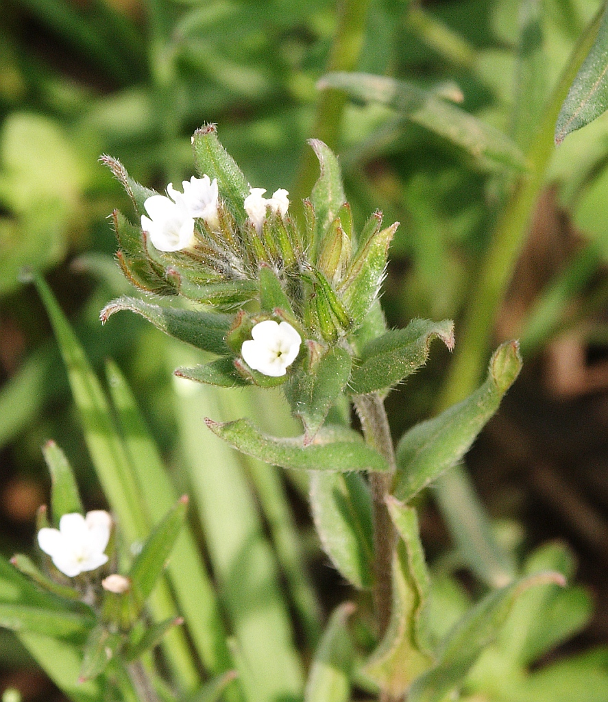 Buglossodies arvensis, Tauberland, Germany